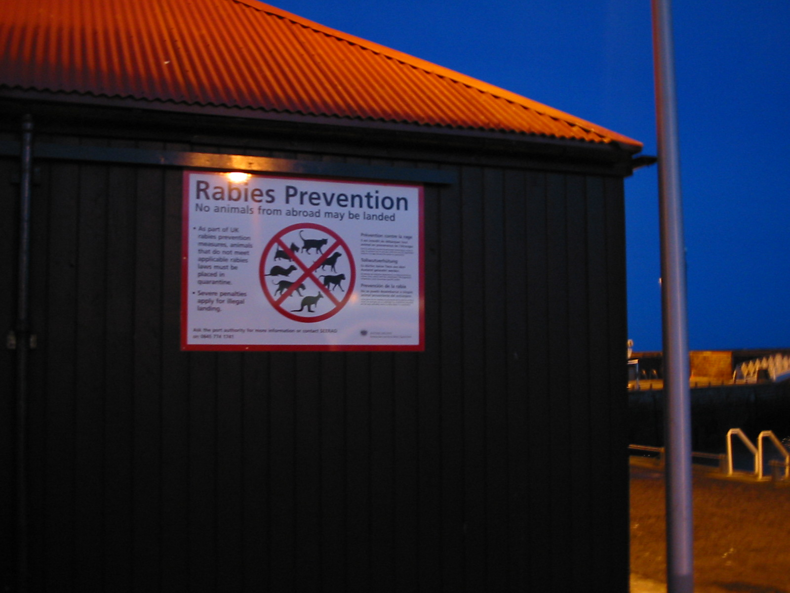 Rabies Warning sign at Arbroath Harbour